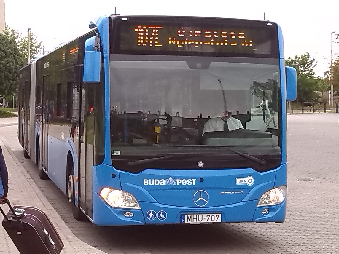 107E bus in Budapest